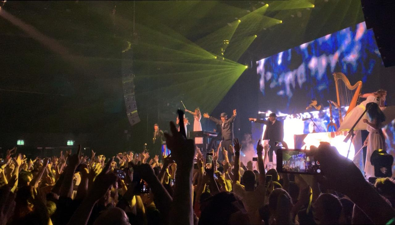 This is a picture of a frenchcore concert in Tilburg by Dr. Peacock.